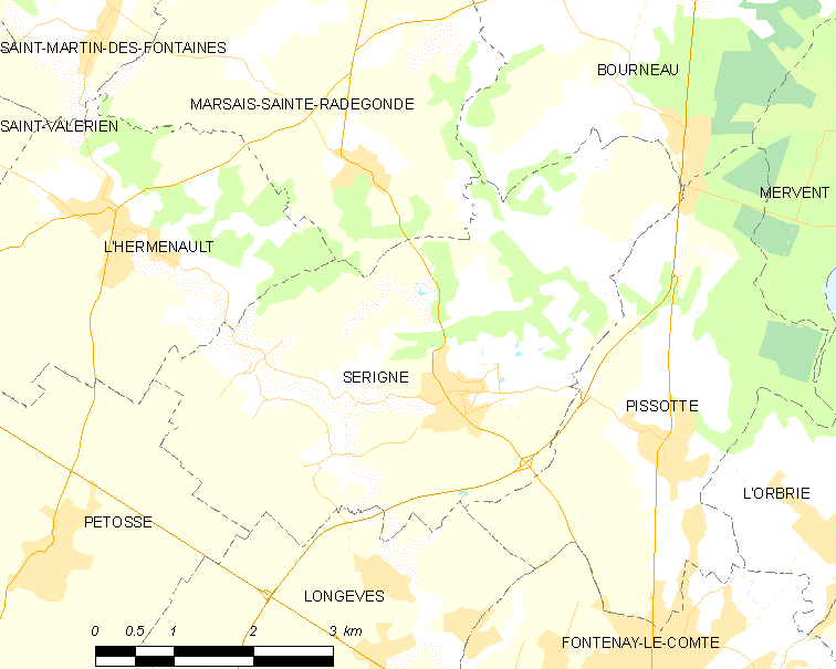 Map of French municipality Sérigné